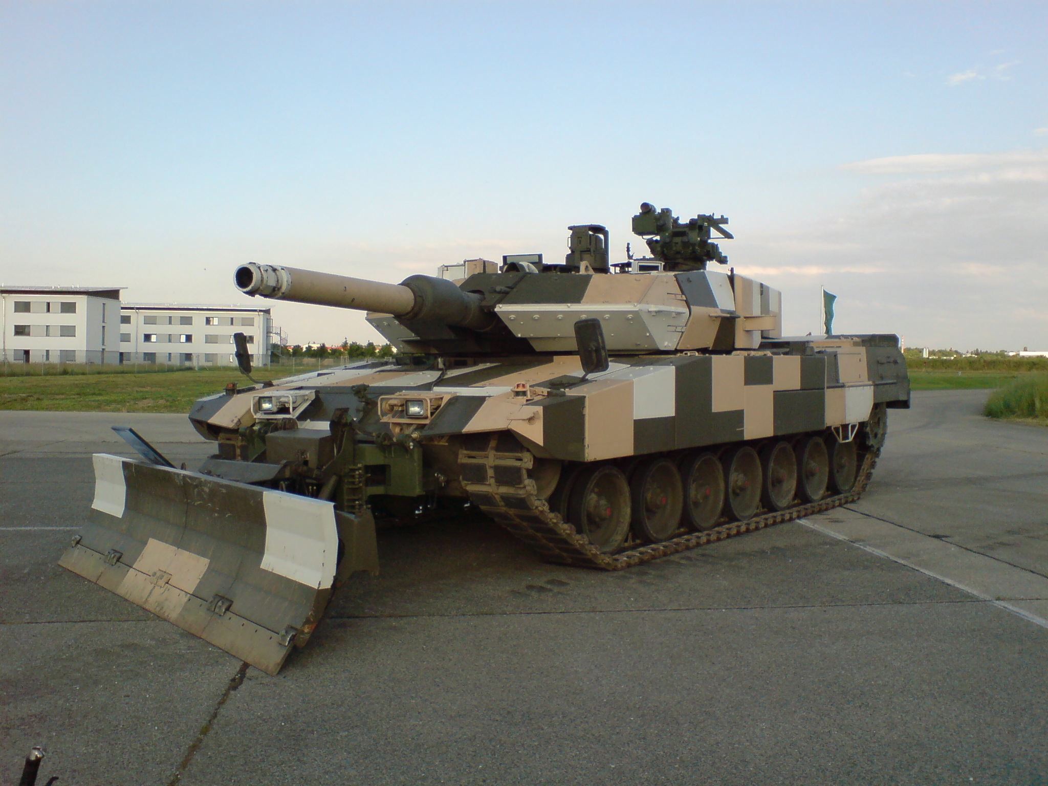 Leopard 2 PSO prototype in Munich, 2008, front view